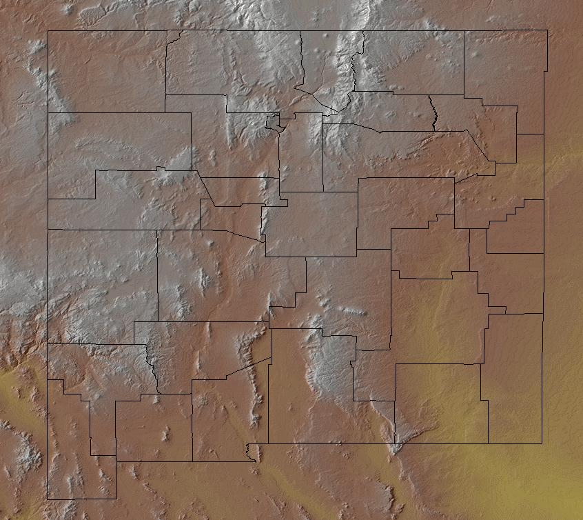 Topographic map of Texas generated by the National Geophysical Data Center (NGDC).